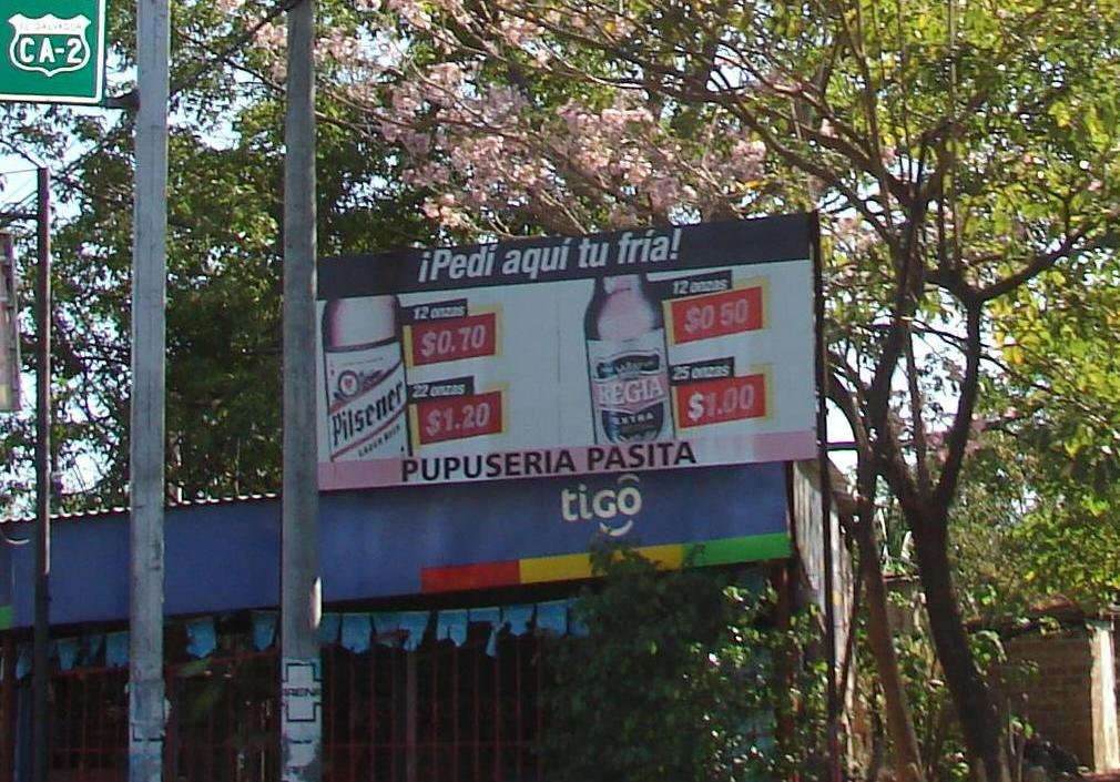 Use of voseo on El Salvador billboard. Poster using voseo grammar in El Salvador (translation: "Order your cold one here!").